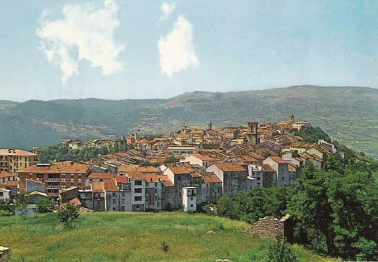 Agnone (Isernia) Italy 2006